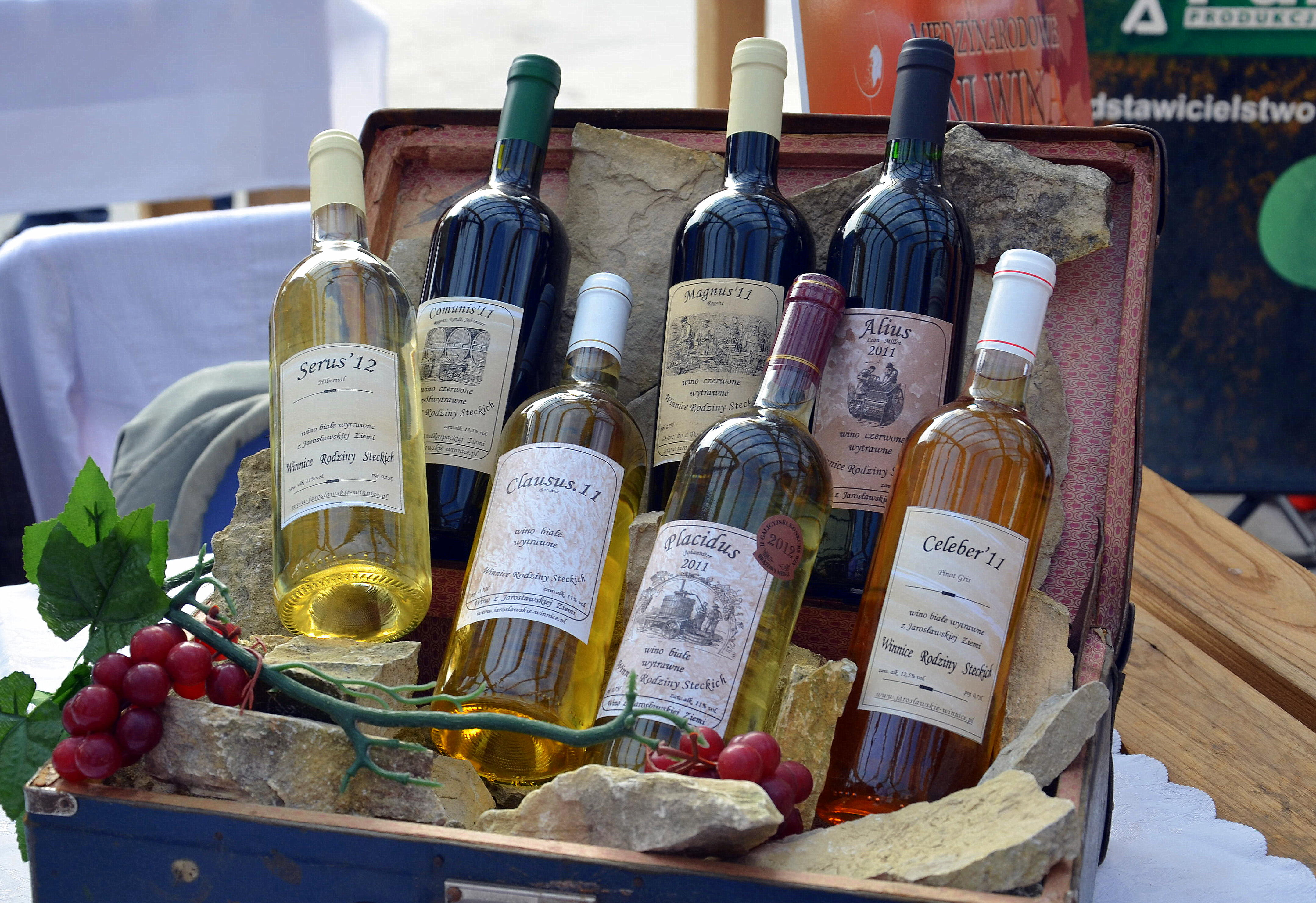 Weinsorten aus Polen, Jasło 2013